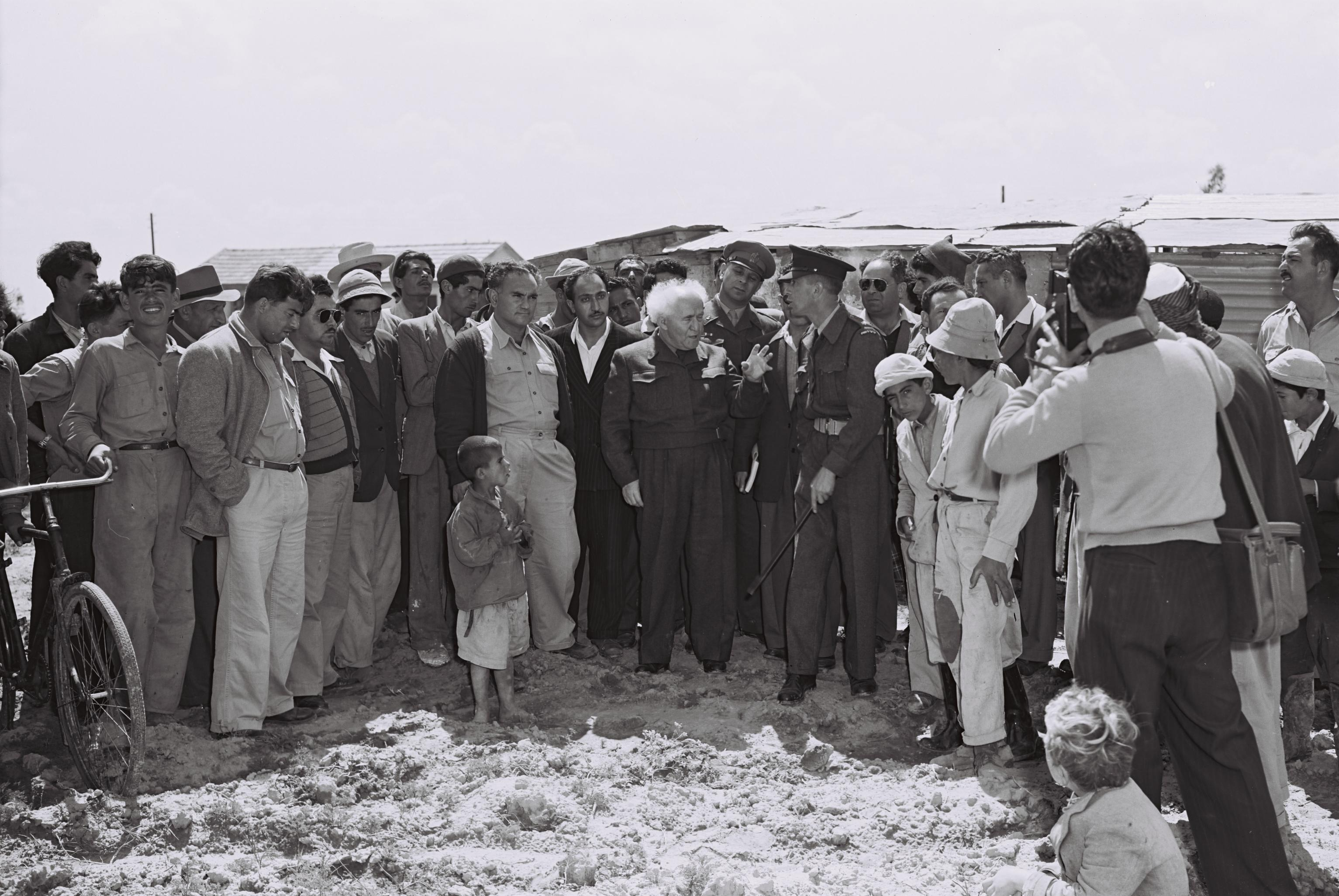 David Ben Gurion visits Moshav Patish in the Negev after a terrorist attack.